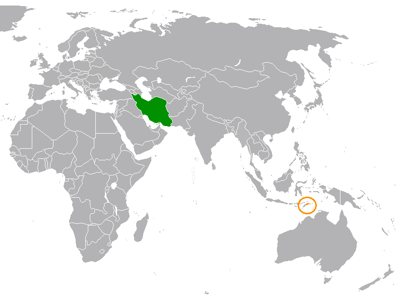 Map showing locations of both Iran and East Timor